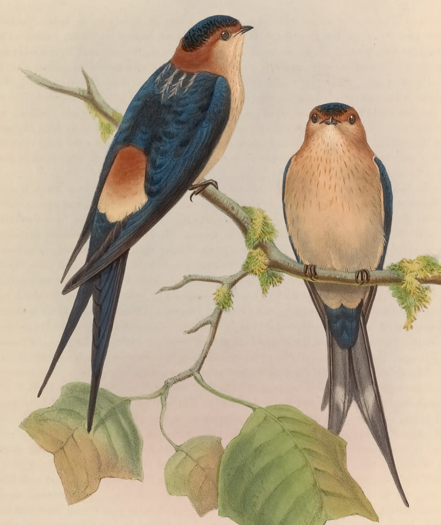 Cecropis daurica (rufula )